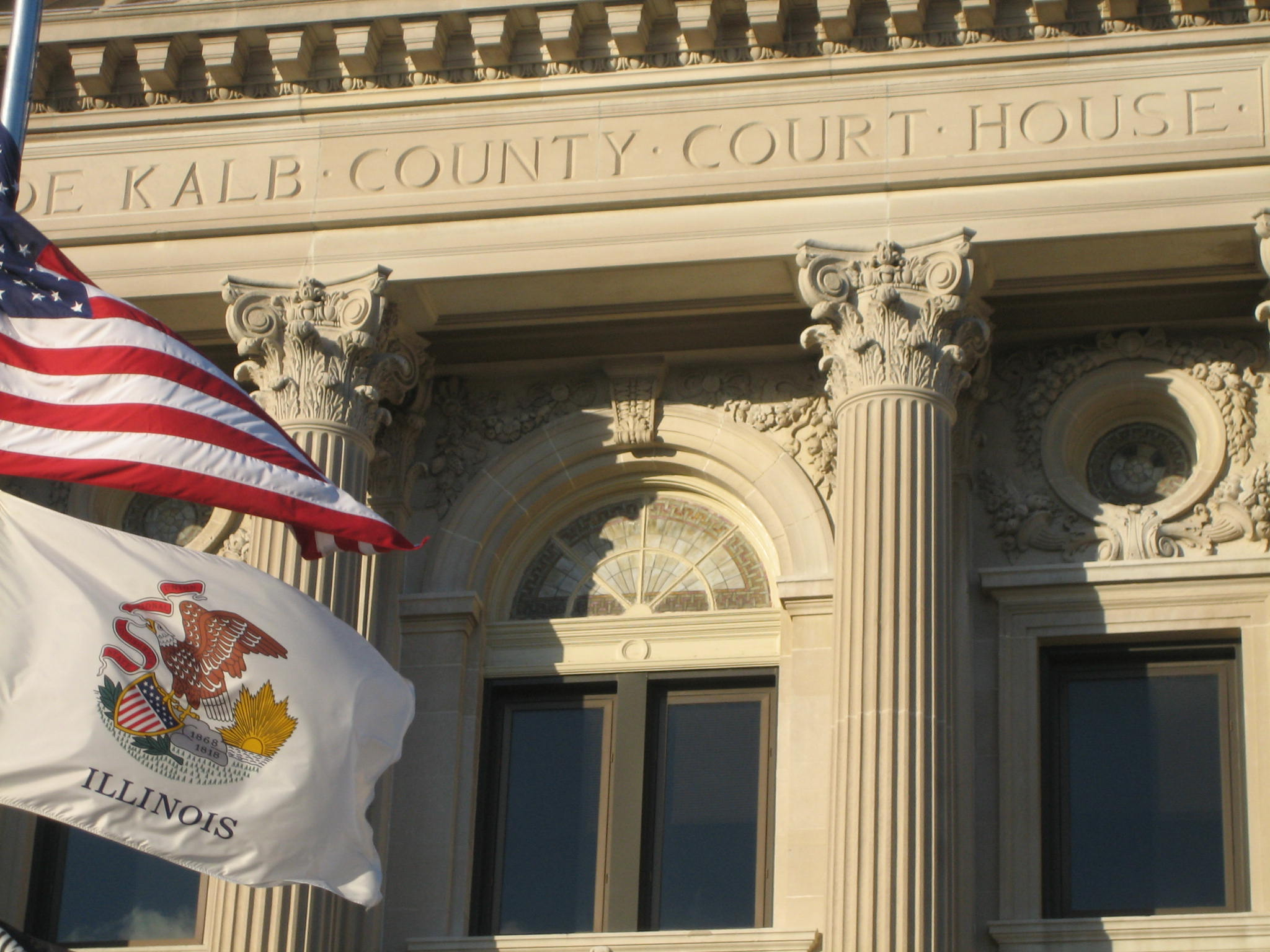 DeKalb County Courthouse, Sycamore, Illinois, Part of the Sycamore Historic District. National Register of Historic Places.